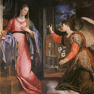 The Annunciation